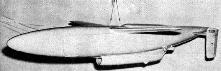 A U.S. Navy TD2N-1 (later KDN-1) Gorgon IIIB air-launched target drone in 1947.